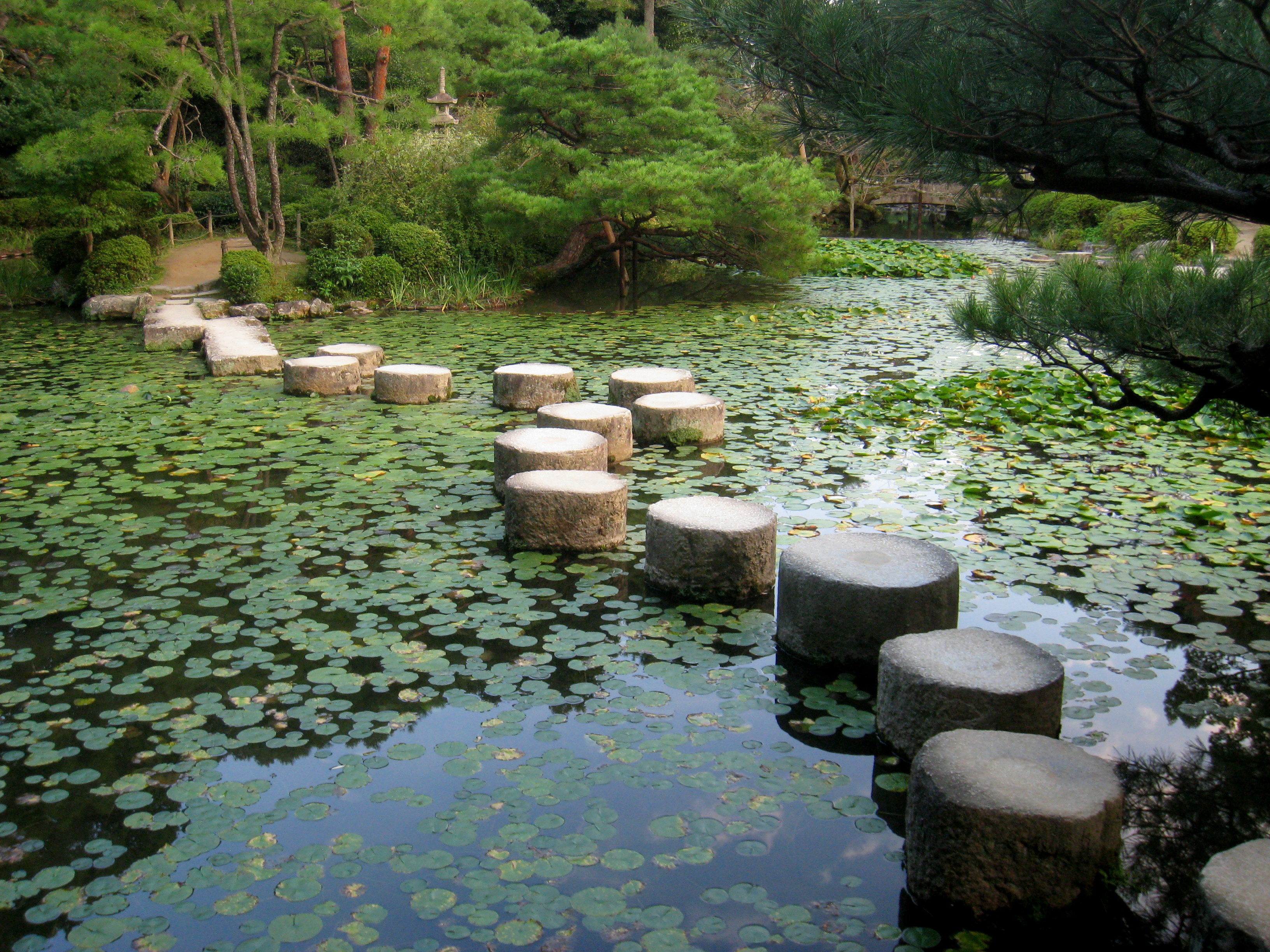 Heian-jingu shinen (Heian Shrine garden), Kyoto, Japan.